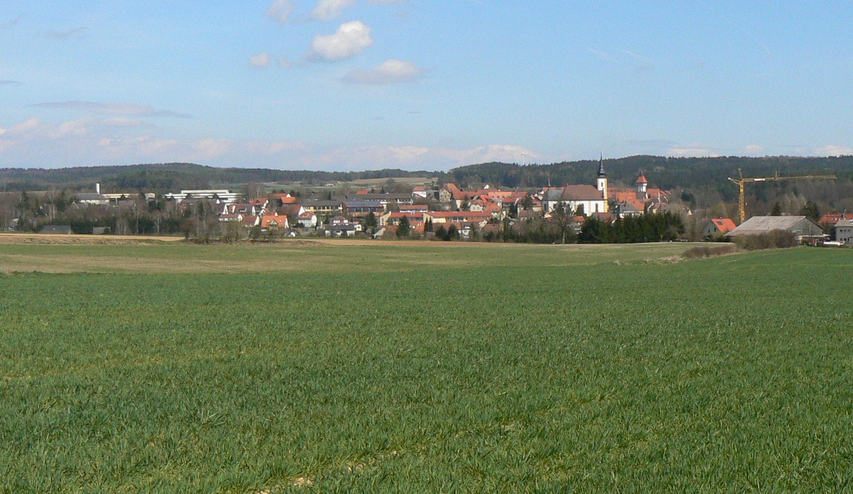 view of Hollfeld, Germany